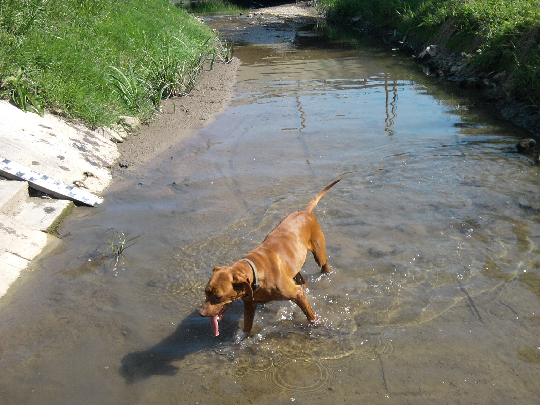 Hungarian Pointer and Gerence Creek